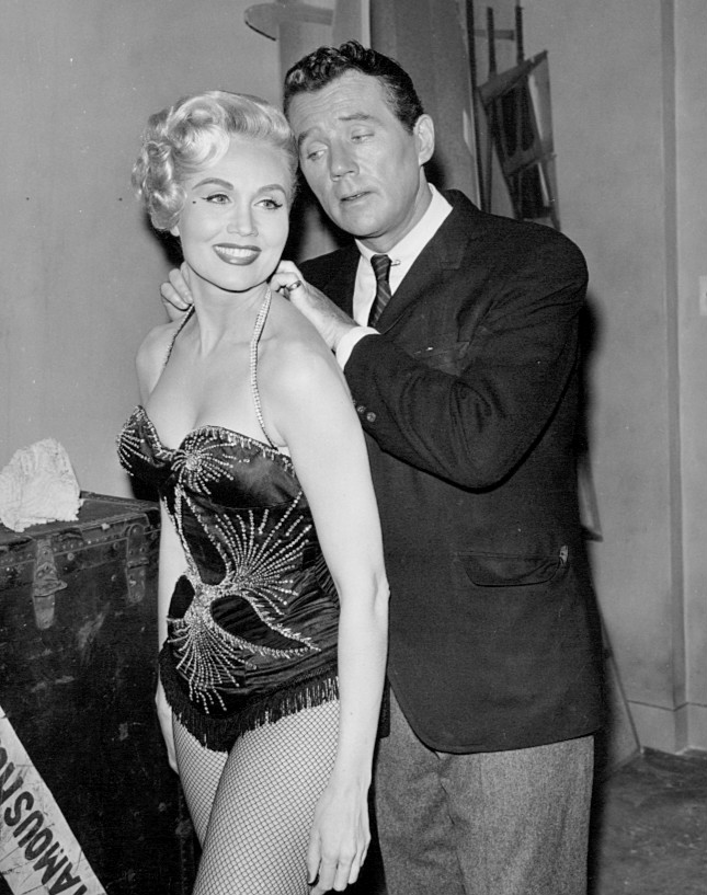 Photo of Howard Duff and Barbara English from the television series Dante; Duff played the title character. The item has no copyright markings on it as can be seen in the links above.